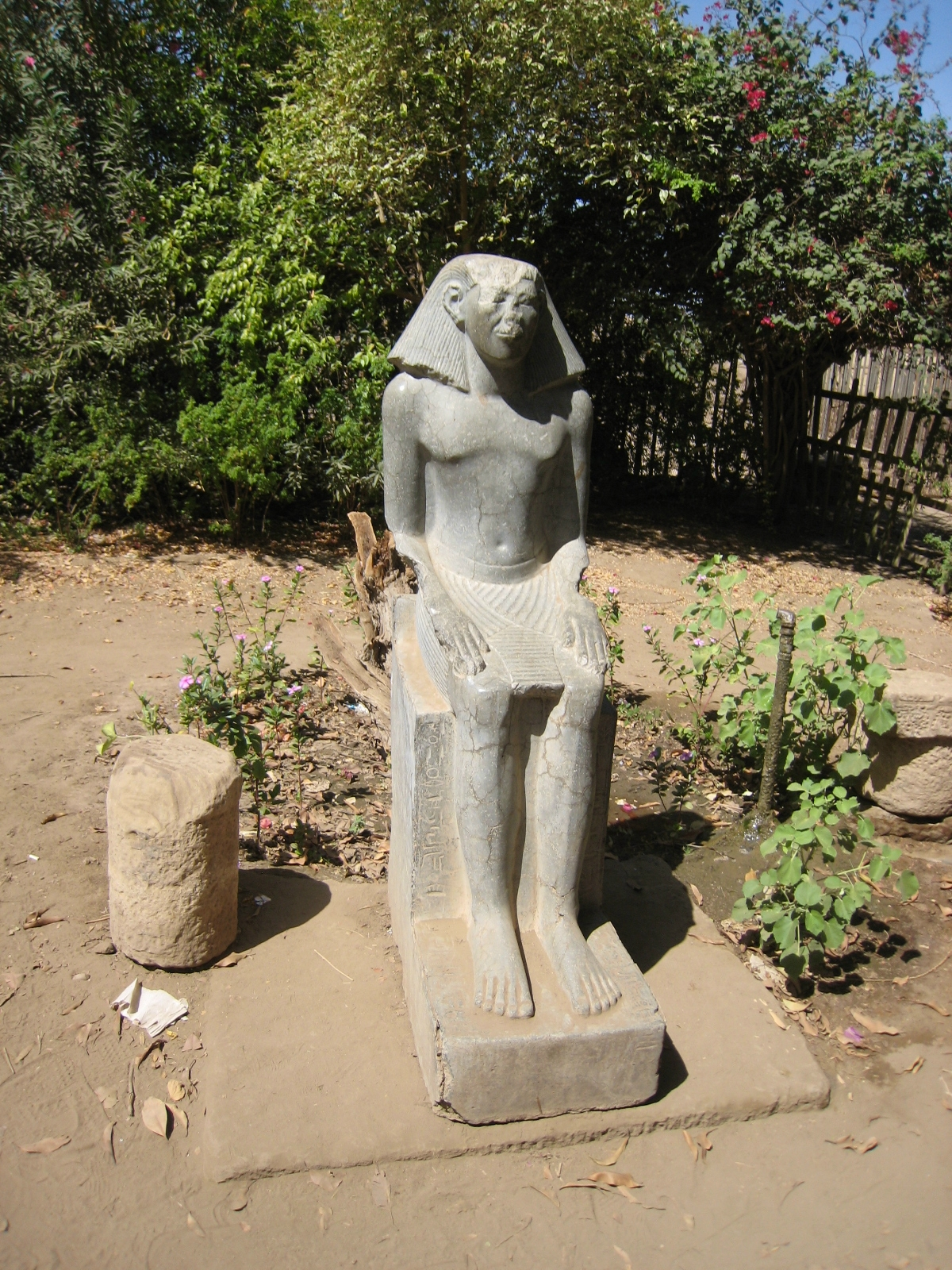 Ancient Egyptian statue on Elephantine Island - Aswan. The statue shows the local governor Khakaureseneb, end of 12th or 13th Dynasty IMG_6510